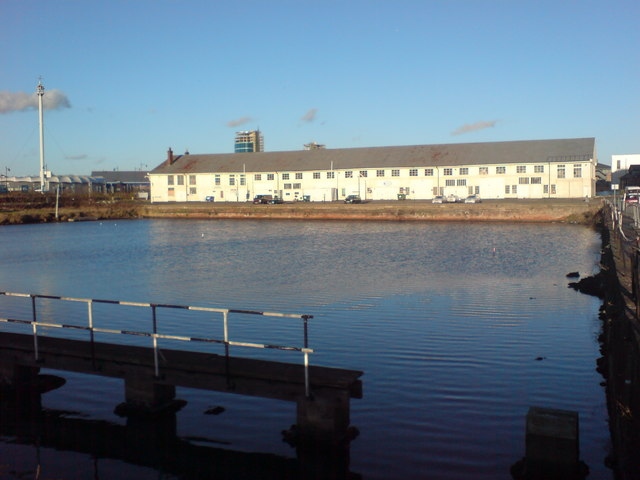 North Mast Pond, Chatham Dockyard Looking towards Lower Boathouse. To the left is the Bell Mast Tower.